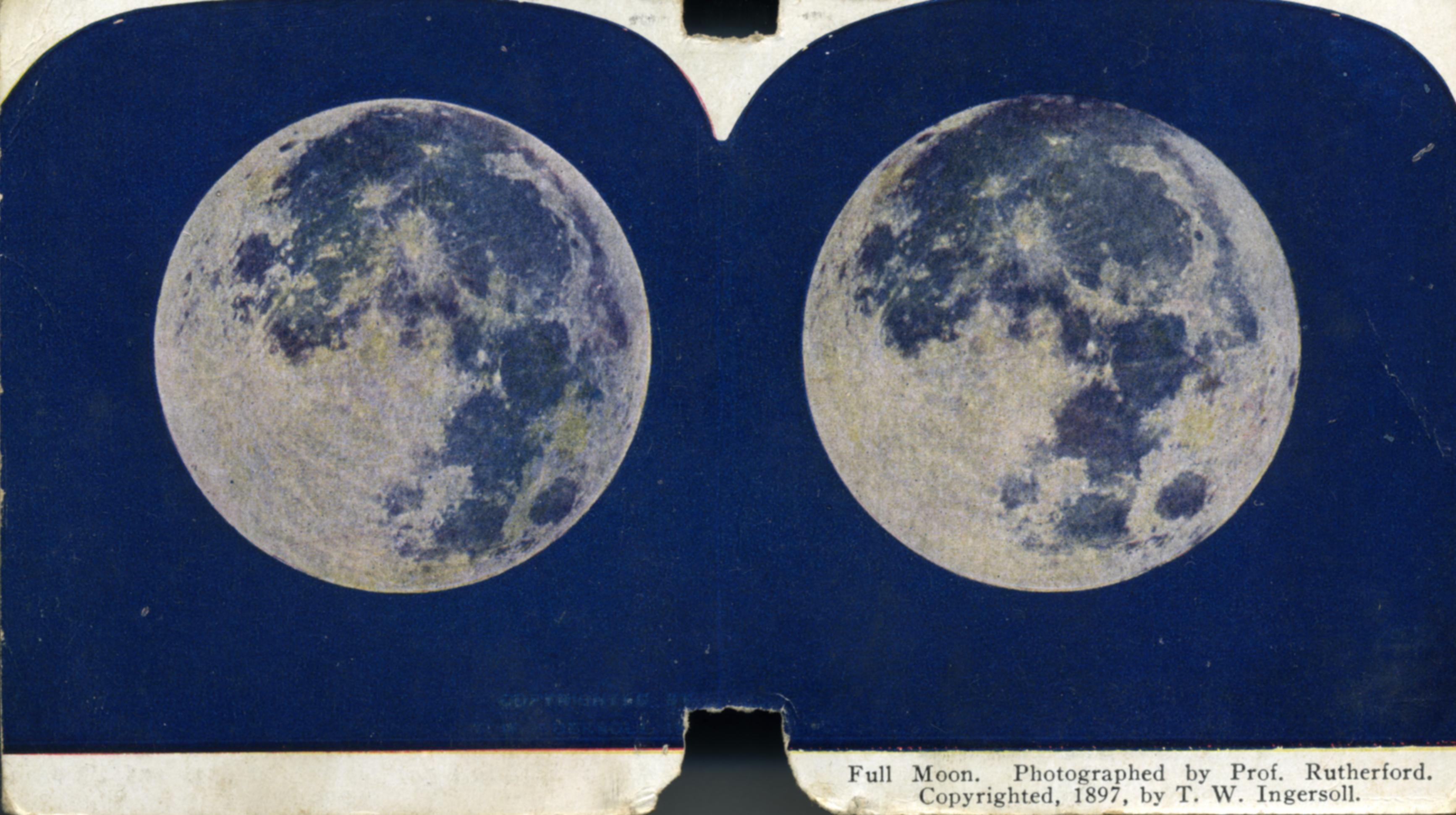 Stereo card with photo of the moon, published in 1897. Parallel.